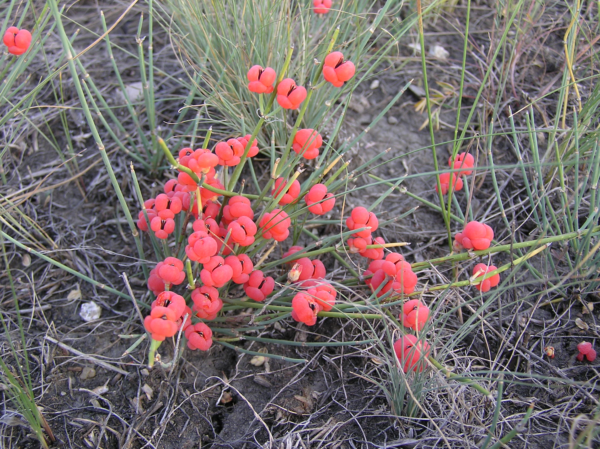 Ephedra distachya subsp. monostachya (L.) Riedl. – female plant with “berries”. Habitat: saline steppe. Vicinity of Saratov city, Russia.